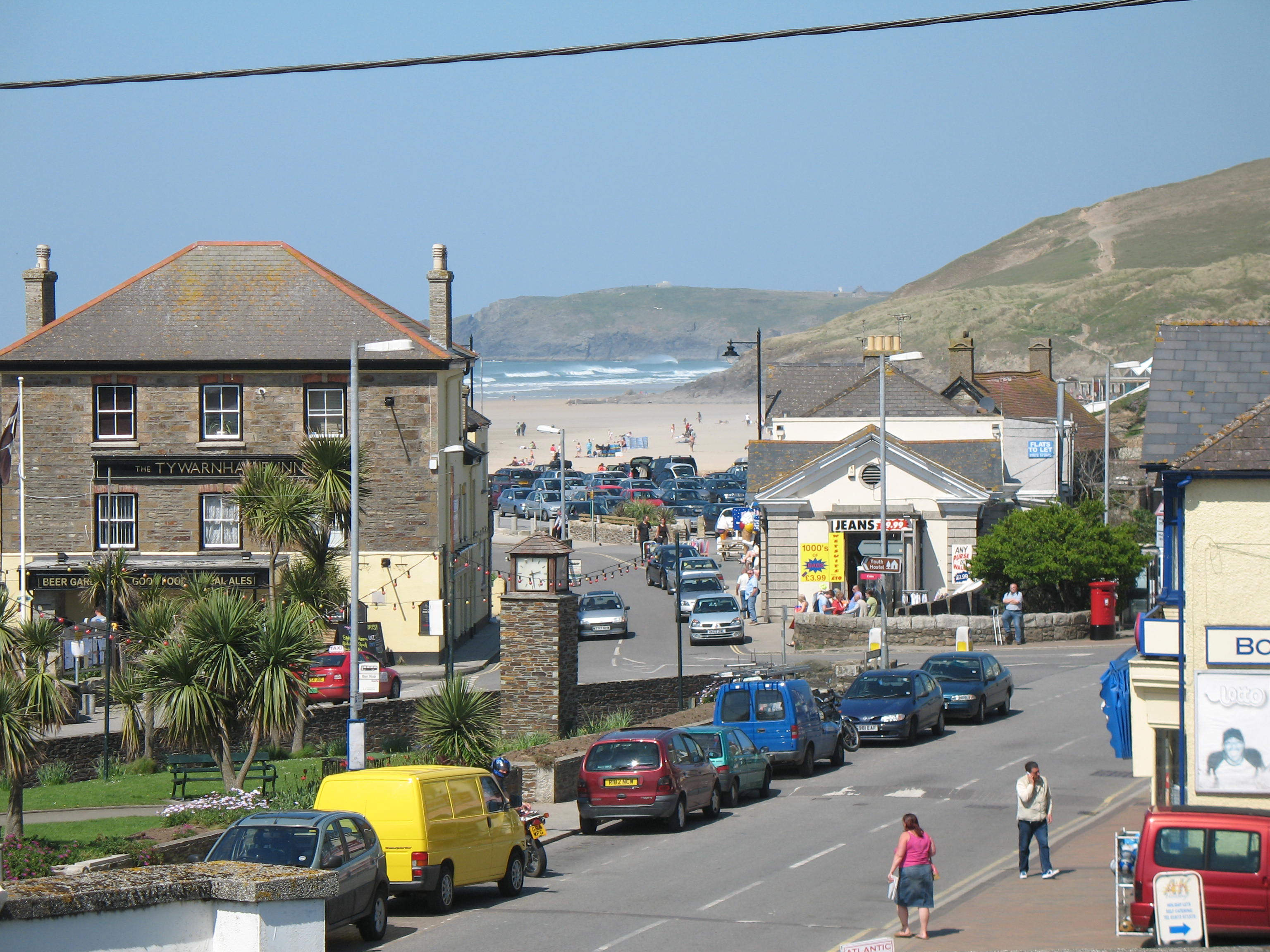 Image source: Jonathon Staples